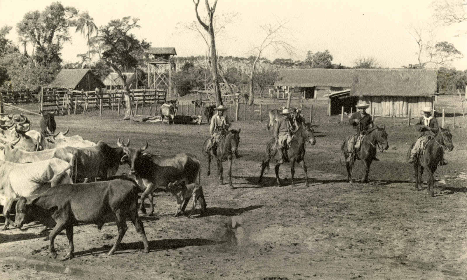 A cattle roundup at the Bruderhof in Paraguay